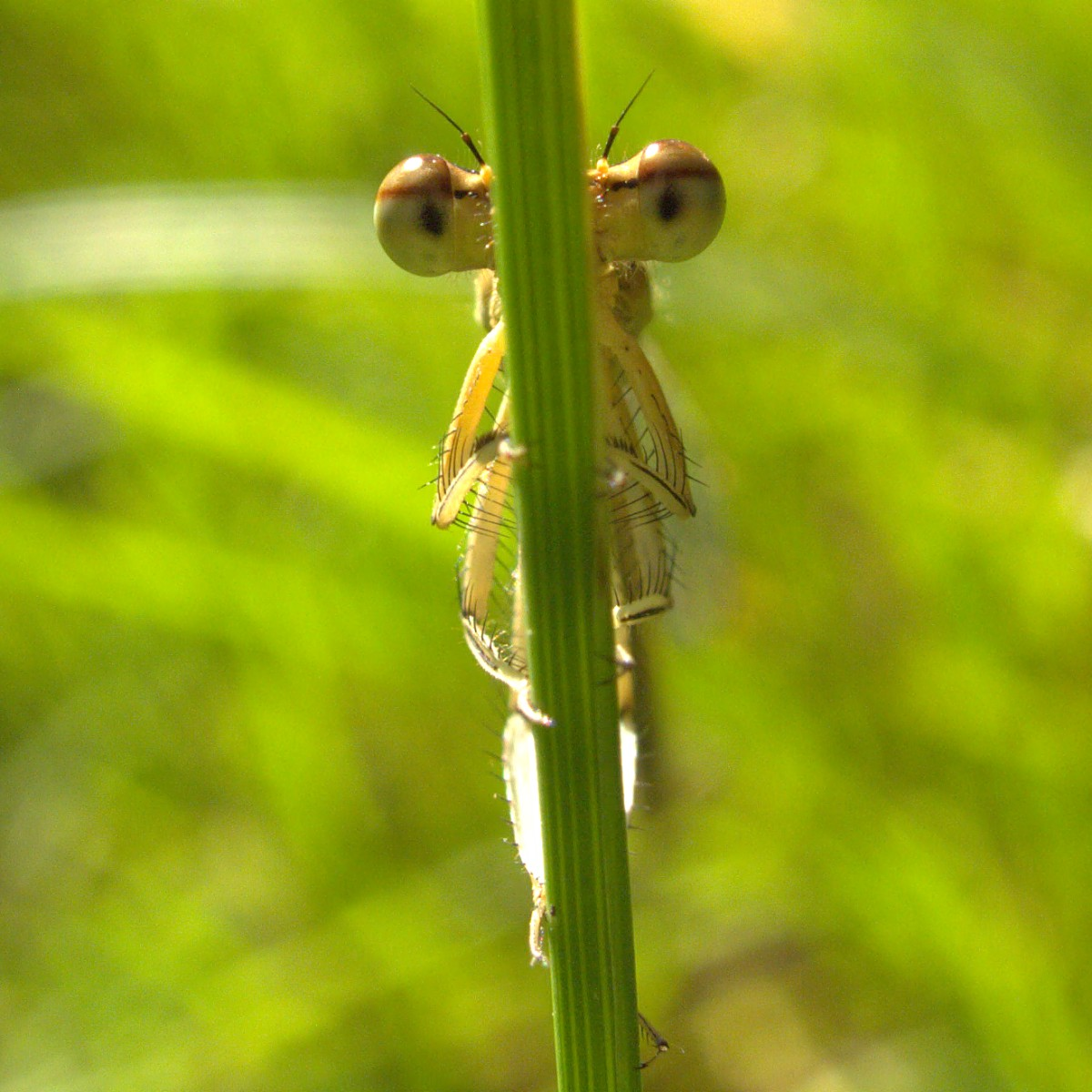 Name: Platycnemis pennipes. Family: Platycnemididae. Location: Münster, NRW, Germany